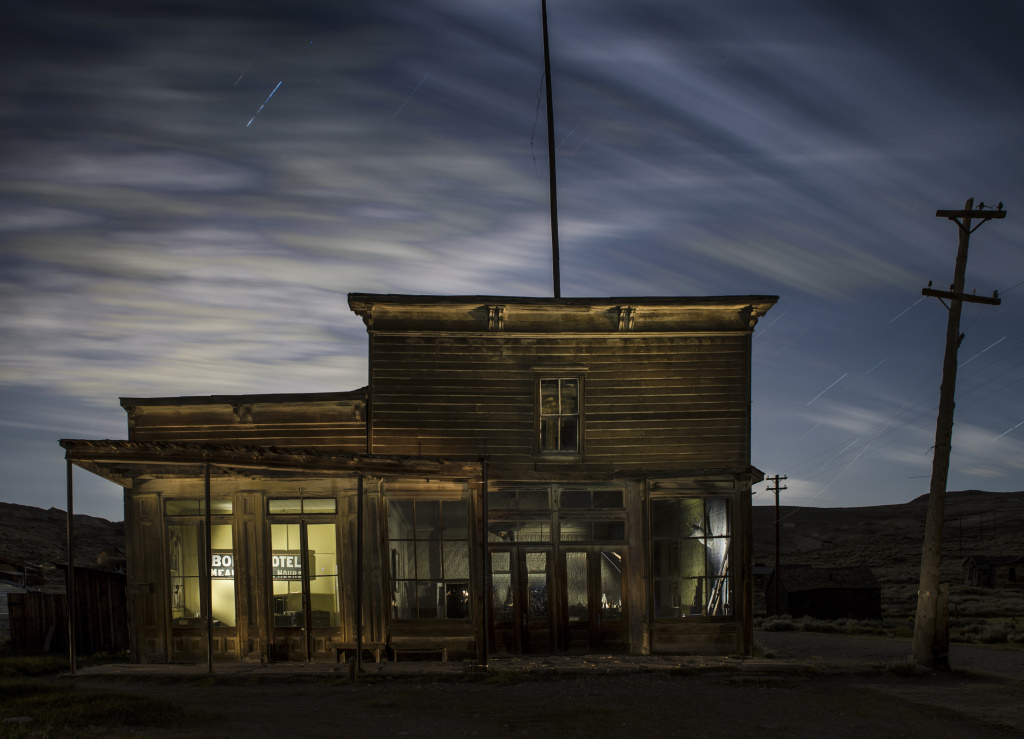 The Bodie Hotel at night with star trails and moving clouds, a long exposure night photo taken in the ghost town of Bodie, California.